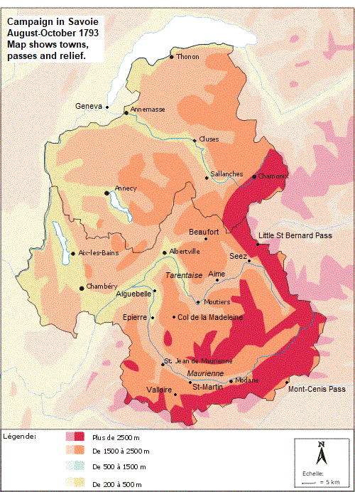 This map was adapted from "Relief_Savoie.GIF" (Attribution: Assemblée des Pays de Savoie) by adding 12 locations to the map using MS Paint. The result is suitable to illustrate the "Battle of Epierre" article.